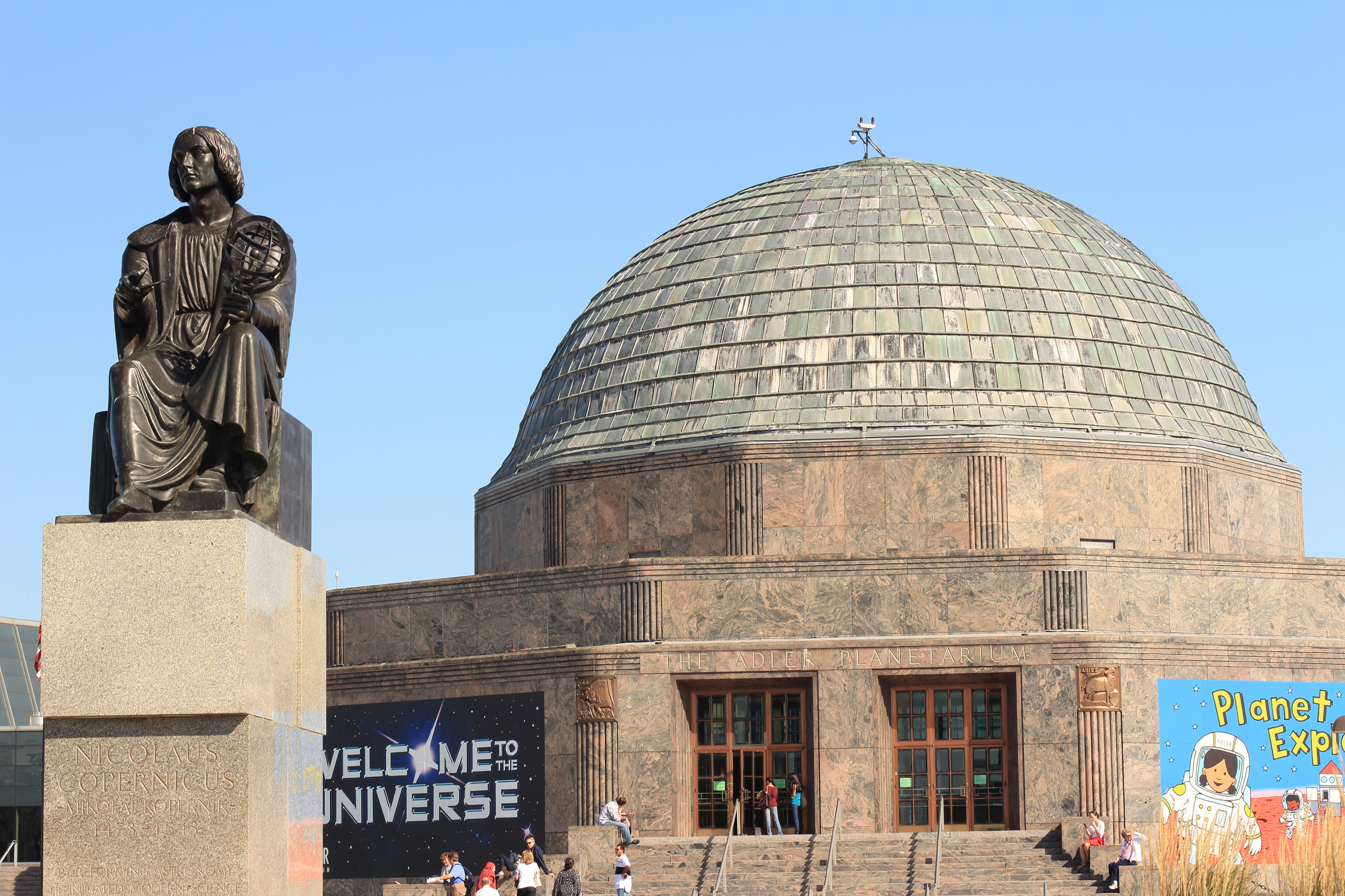 Adler Planetarium